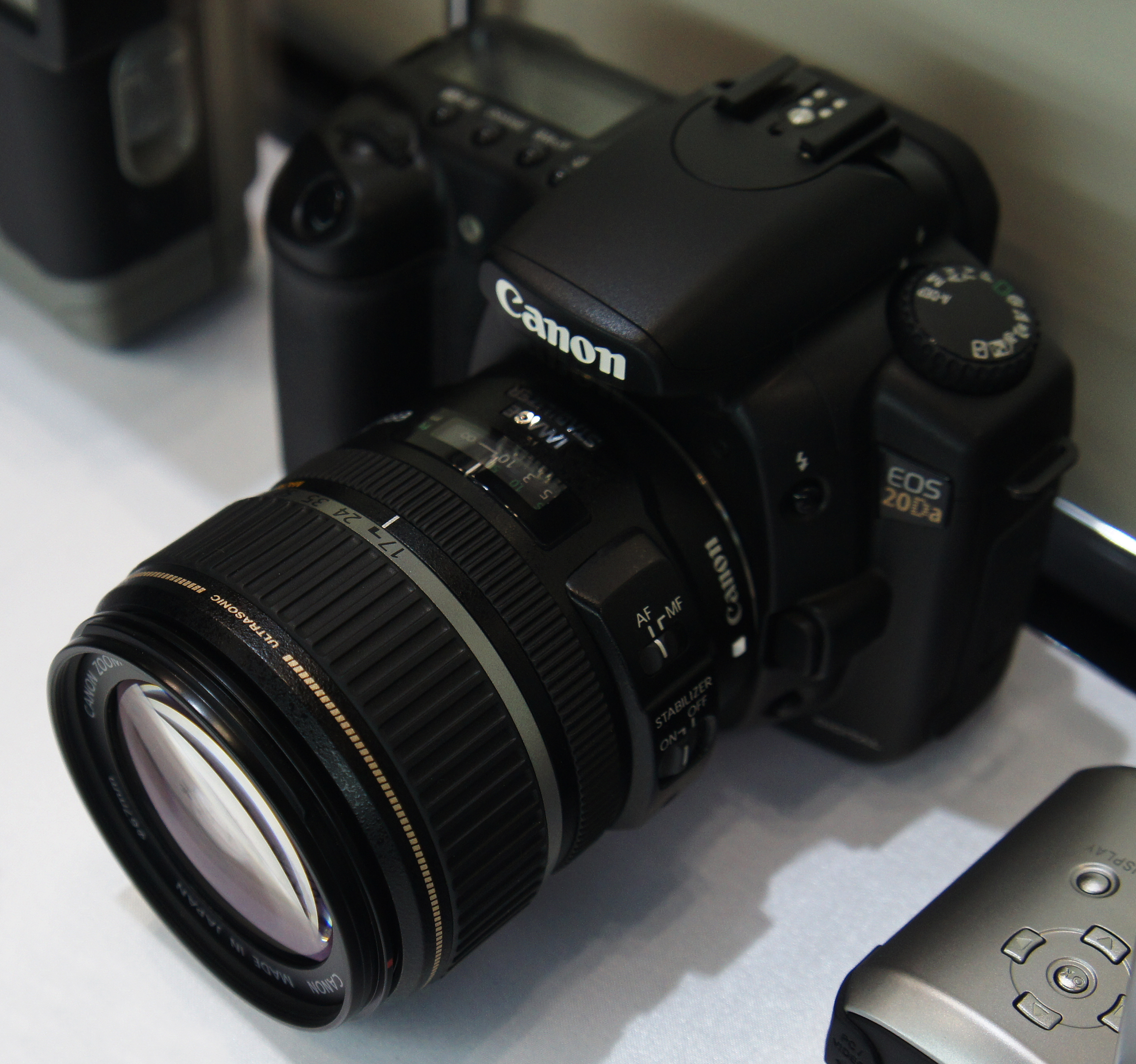 CP+ 2011: 2005 Canon EOS 20Da